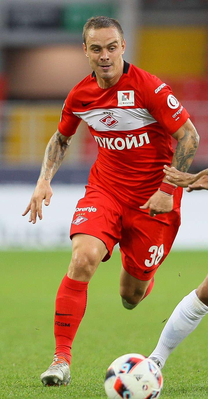 Andrey Eshchenko